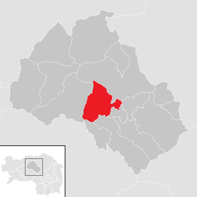 District Leoben